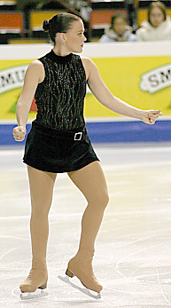 Joanne Carter competes her short program at the 2004 Four Continents Championships in Hamilton, Ontario.